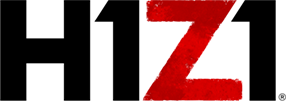 logo for H1Z1.